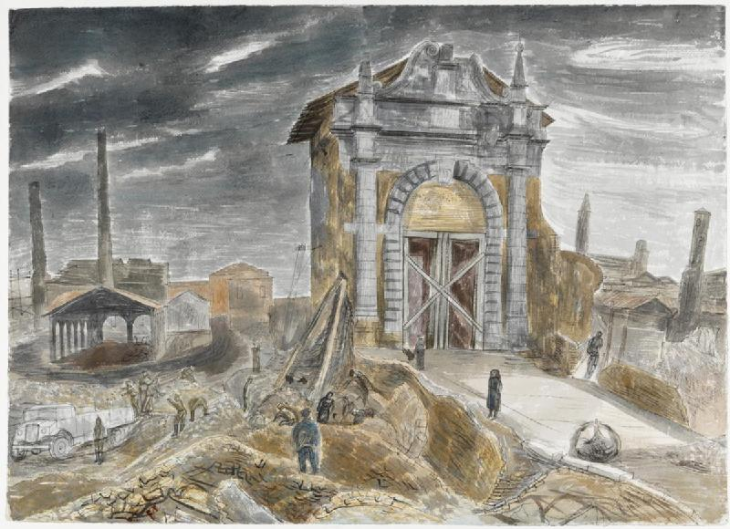 Ravenna- Royal Engineers' working party collecting material for bridge repairs and road making at the Porta Cybo image: remains of a large gateway surrounded by debris from bombed buildings with soldiers moving among the piles of masonry, watched by a single female figure standing centre right.